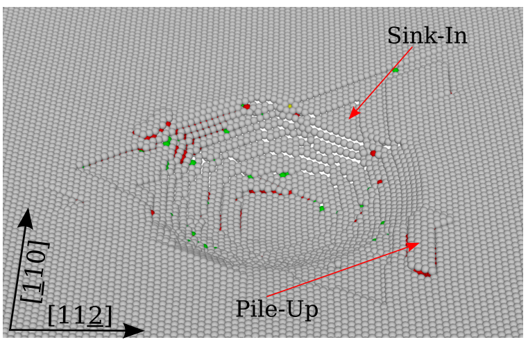 Indentation Surface Defects Simulation (Cu)